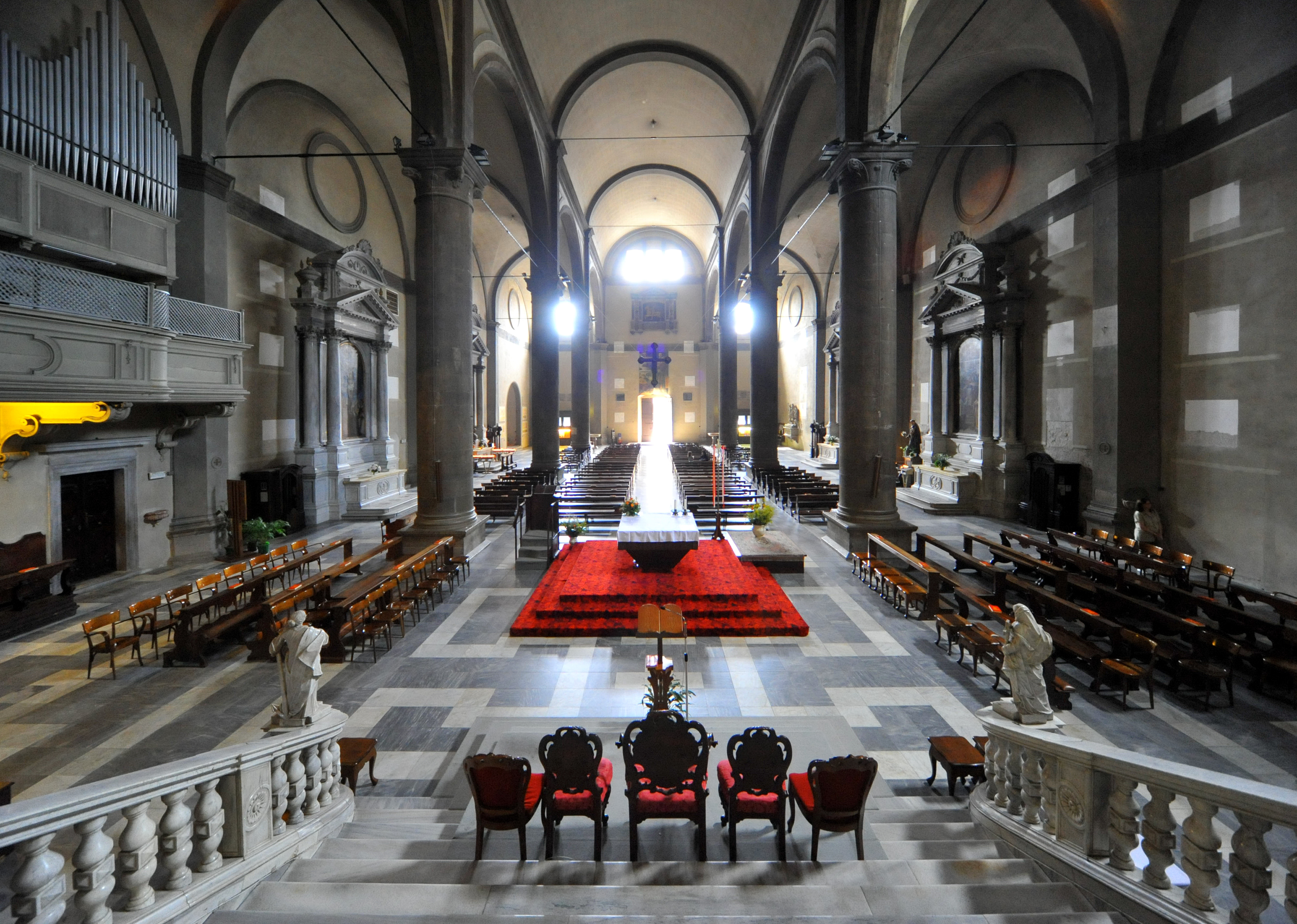 Cividale del Friuli, interior of Cathedral Santa Maria Assunta